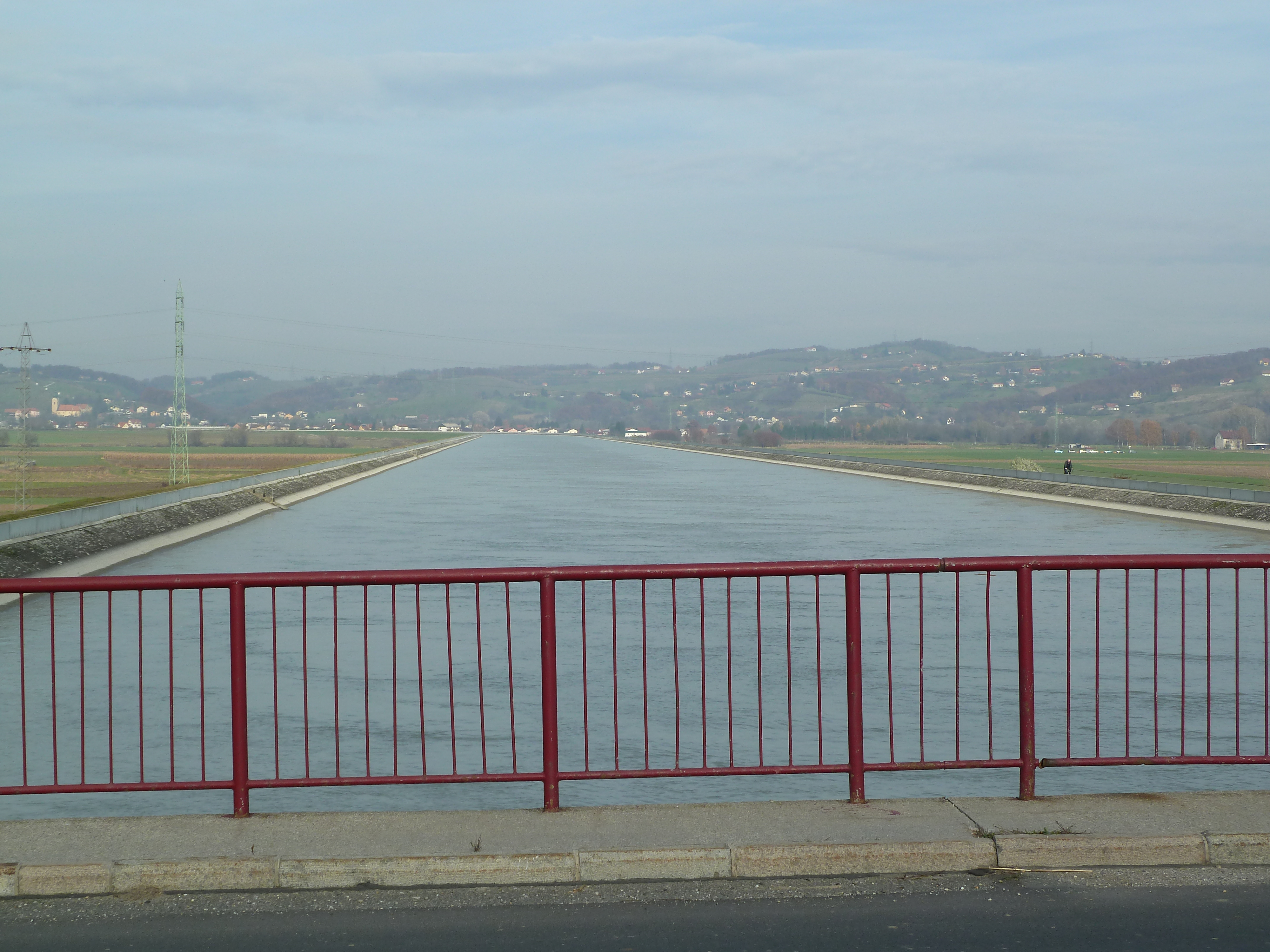 Supply channel for hydro powerplant Zlatoličje, Slovenia.